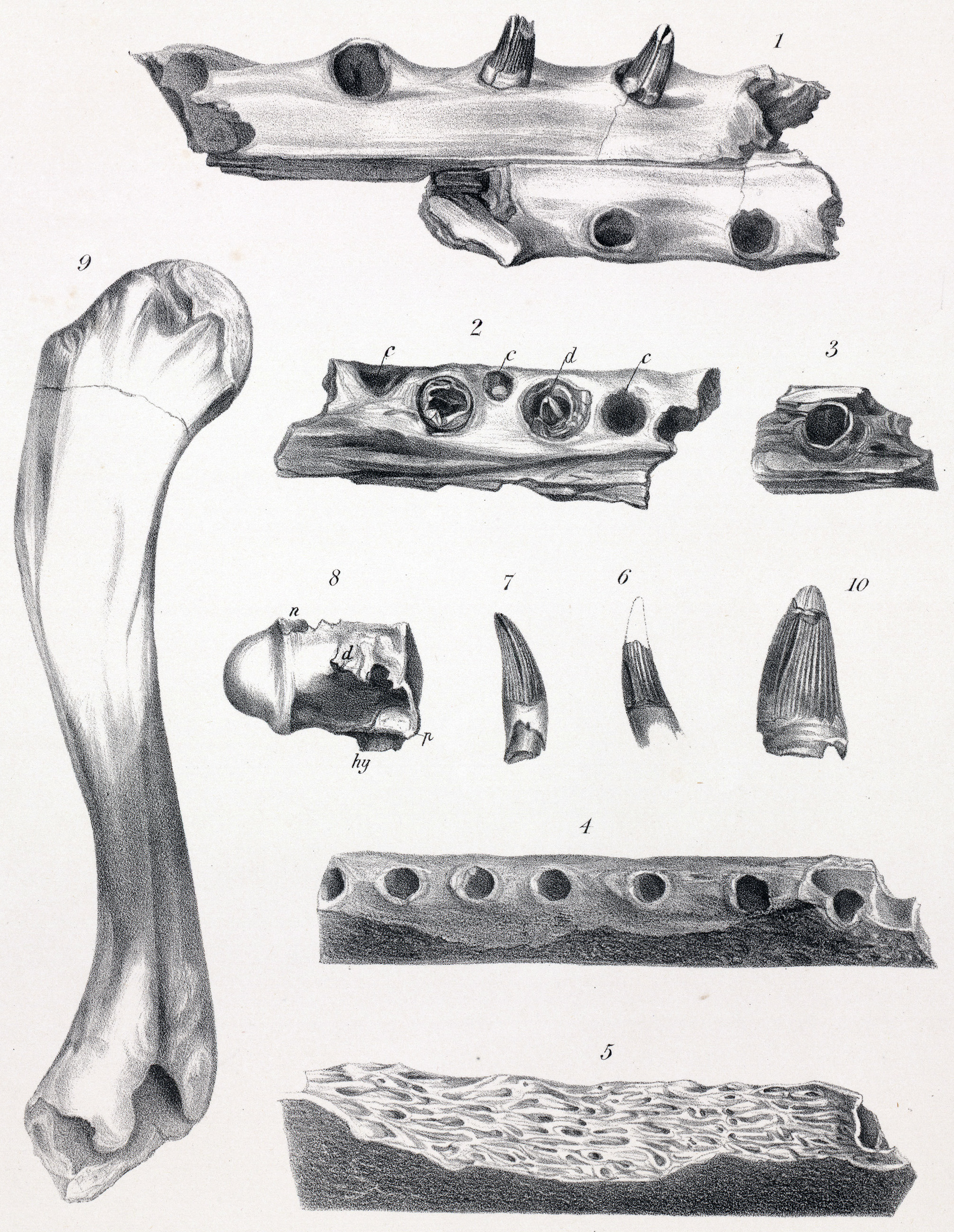 Dollosuchus (formerly Gavialis) Dixoni, nat. size. Fig. 1. A fragment of the symphysis of the lower jaw. Fig. 2. A fragment of one of the rami from the back part of the symphysis, showing the depressions cc, in the interspaces of the alveoli. Fig. 3. The fractured under part of a fragment of the same (d) jaw, exposing the hollow base of a young tooth. Fig. 4. A fragment of a ramus forming the long symphysis of the under jaw of a younger individual of the same species; upper surface. Fig. 5. Under side of the same fragment. Fig. 6. A portion of a tooth of the same species of Gavial. Fig. 7. A tooth with the germ of its successor, which has entered its base, of the same Gavial. Fig. 8. The centrum of a cervical vertebra of the same Gavial. Fig. 9 The femur of the same Gavial. Fig. 10. The crown of a tooth of a large Crocodilian from Bracklesham.